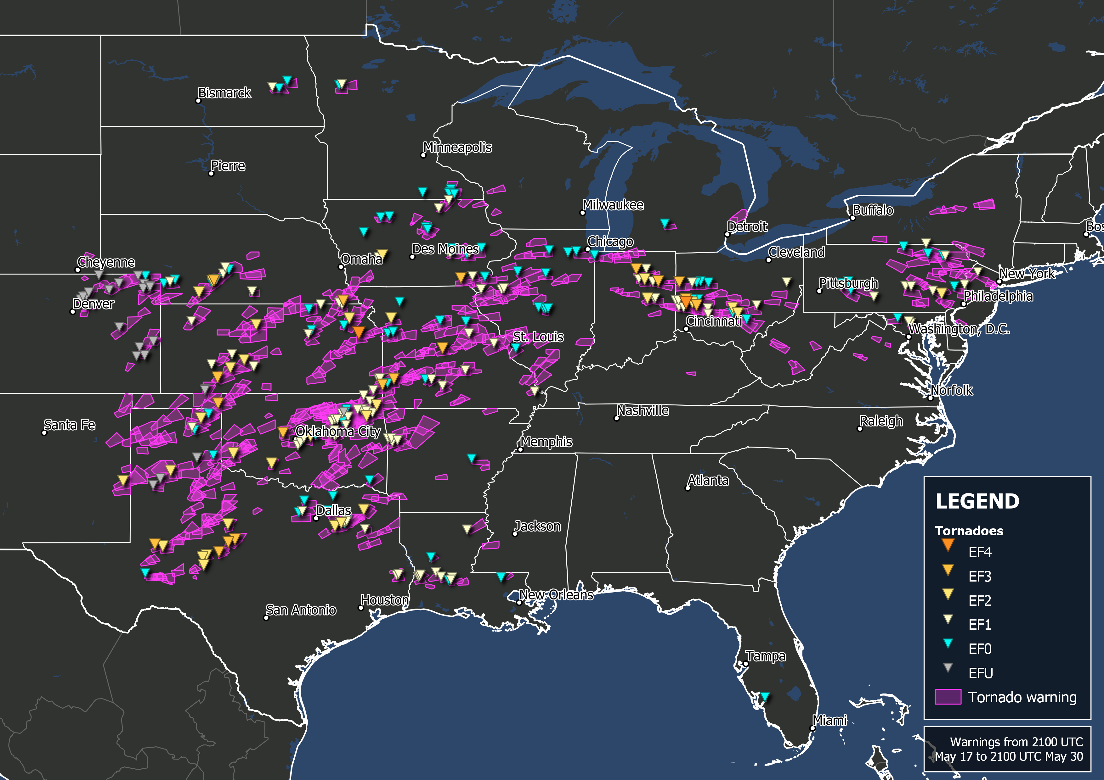 Map of tornado warnings issued by the National Weather Service between May 17 and May 29, 2019 over the eastern United States and tornadoes confirmed and surveyed by the National Weather Service. Map produced in QGIS with border outlines from the United States Census Bureau. National Weather Service warning outlines available from the Iowa Environmental Mesonet and tornado data available from the National Weather Service.